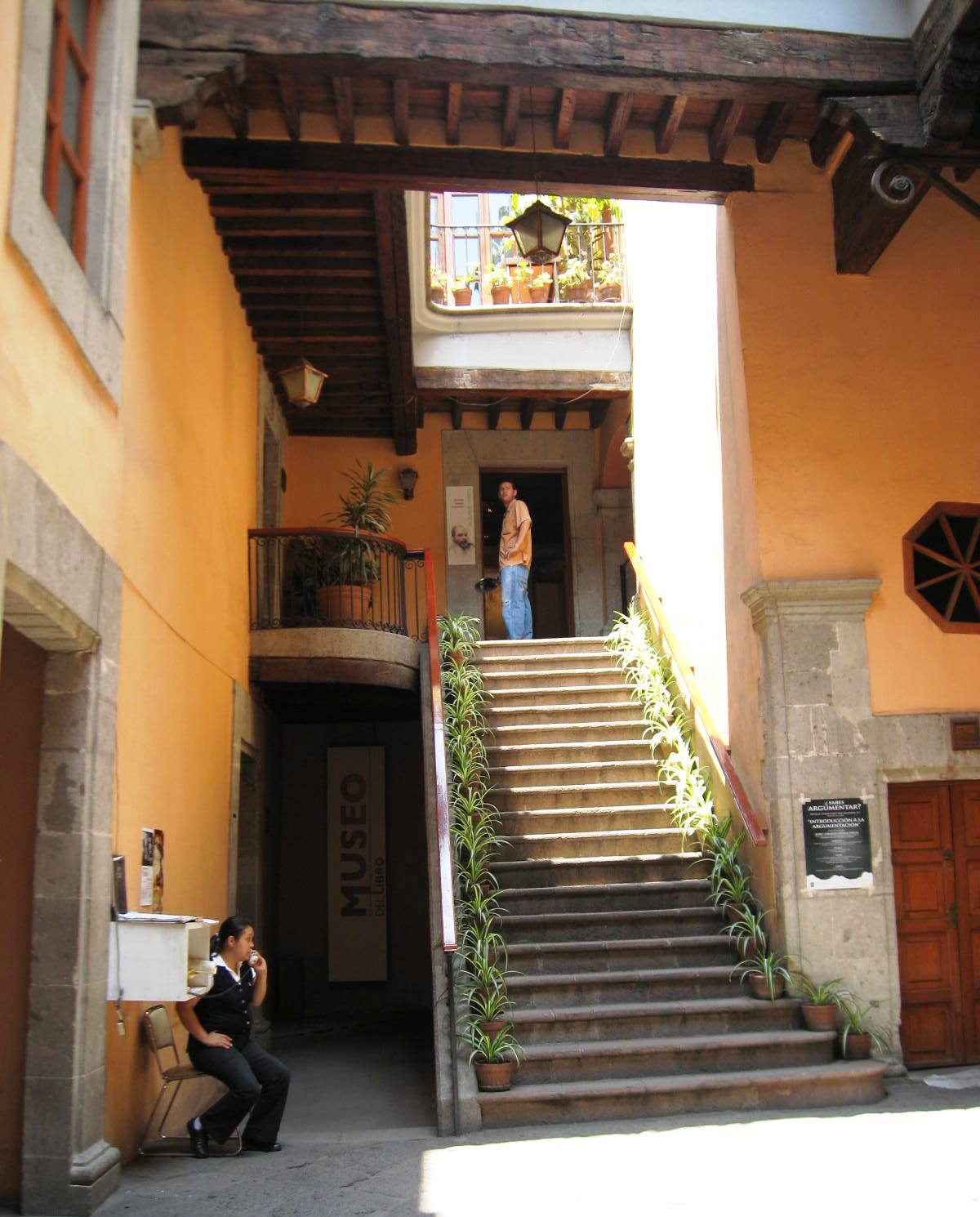 Patio area of the House of the First Print Shop in the Americas just off Moneda Street in the historic center of Mexico City